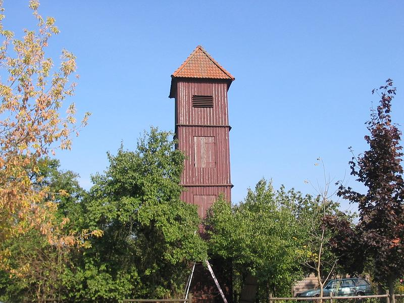 Old tower fire brigade in Lübnitz. The village Lübnitz is a part of the town Belzig in the district Potsdam Mittelmark, state Brandenburg, Germany. The village appertains to the nature park Naturpark Hoher Fläming.